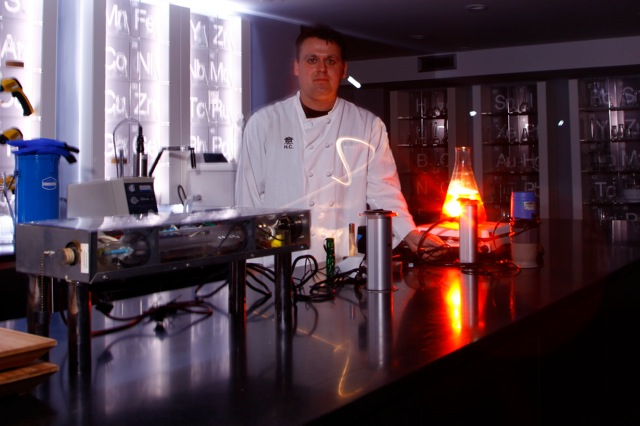 Chef Homaro Cantu in his state of the art lab at Moto Restaurant